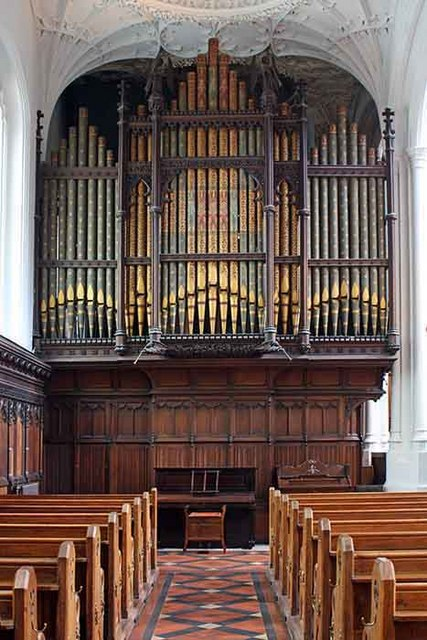 St Mary Aldermary, Bow Lane, London EC4 - Organ, near to London, City of London, Great Britain.